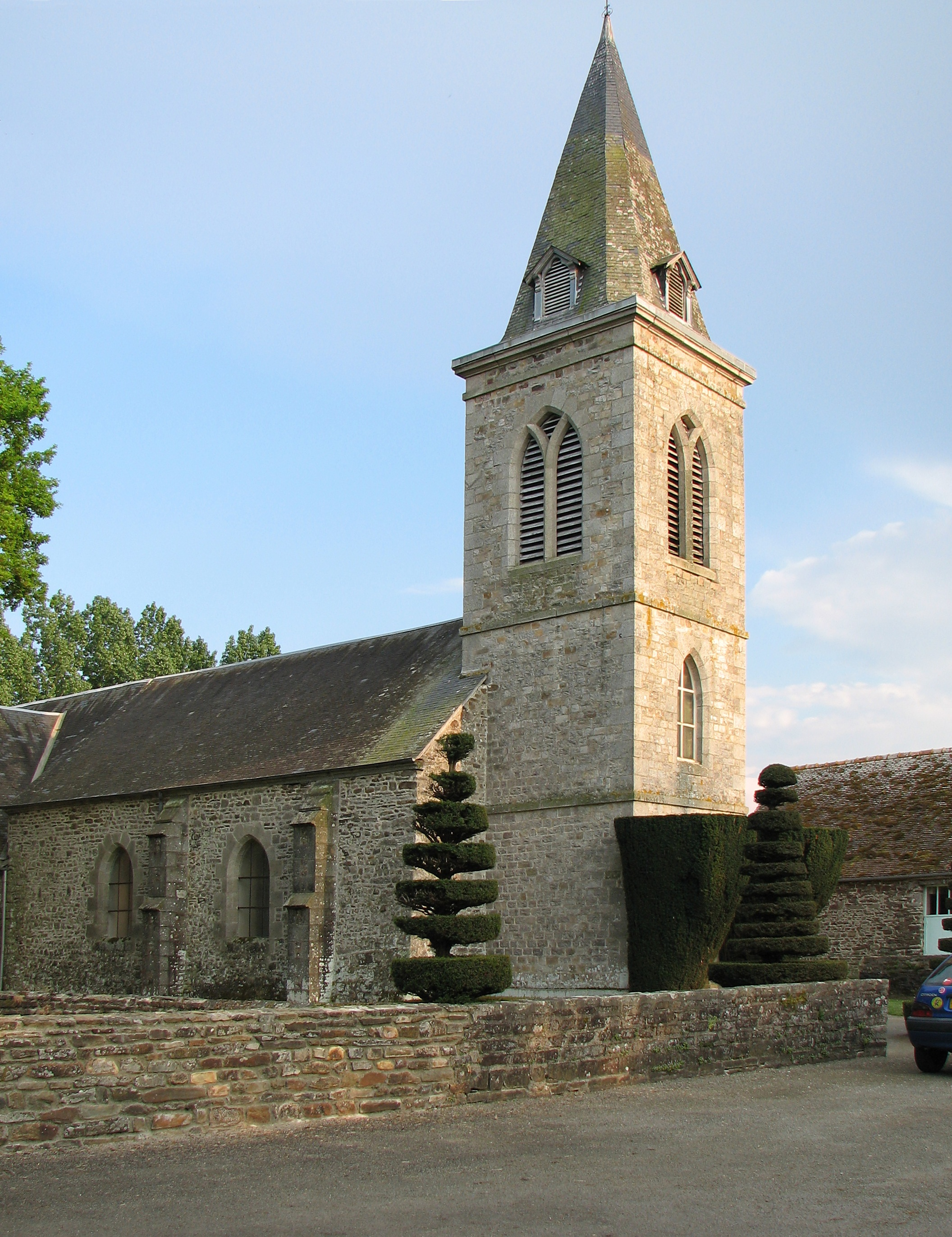 Eglise de Méhoudin, Orne, NormandieMéhoudin church, Orne, Normandy